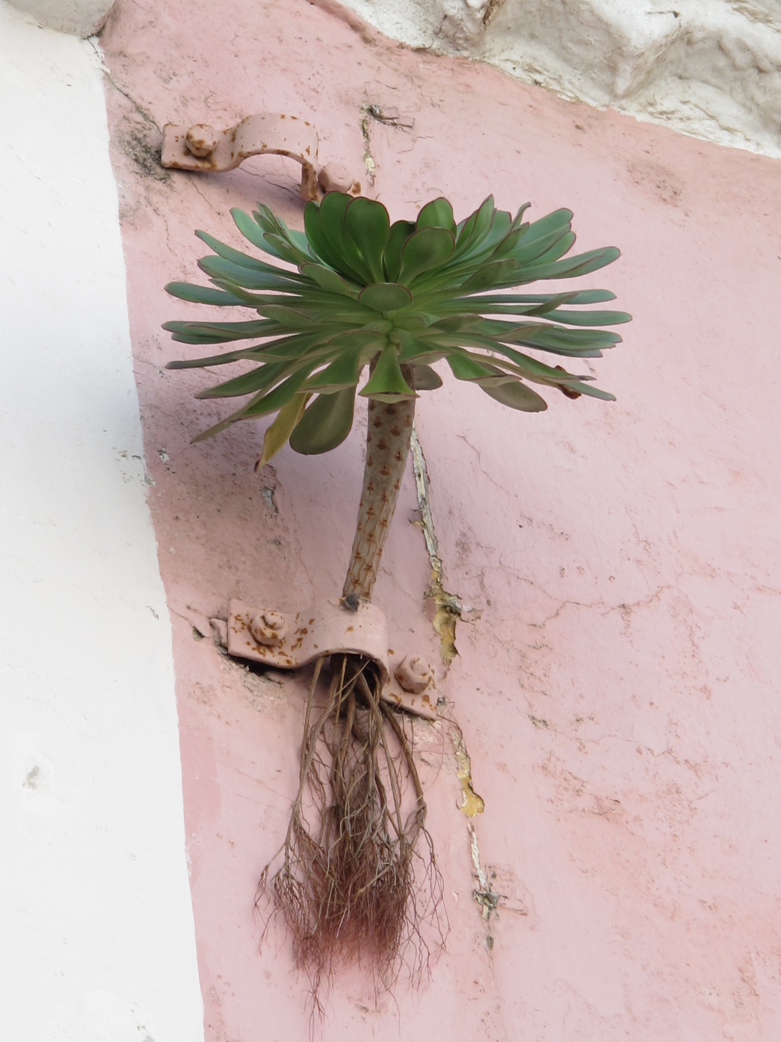 La Laguna, Tenerife, Spain.